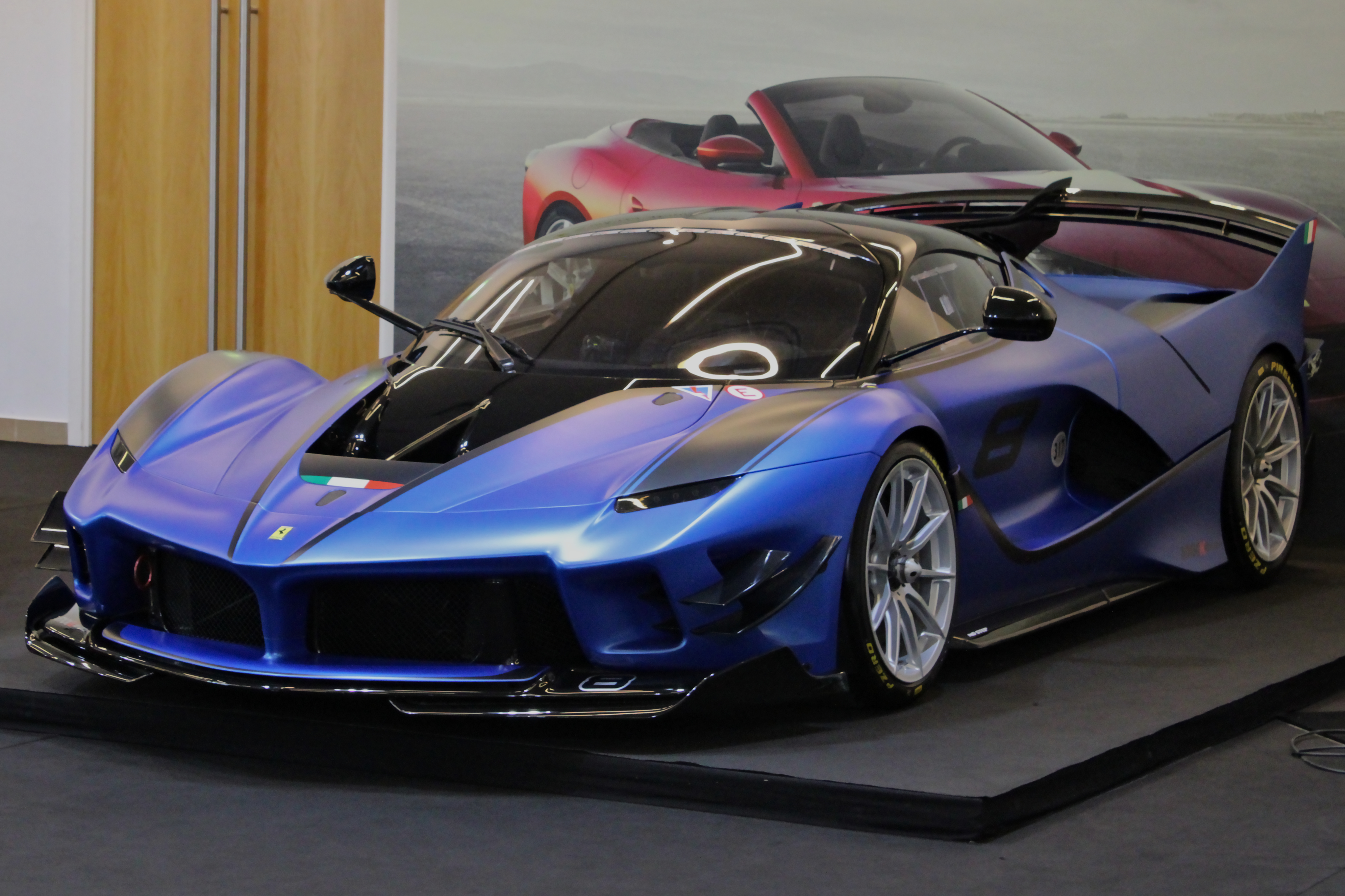 Ferrari FXX K at Top Marques 2019